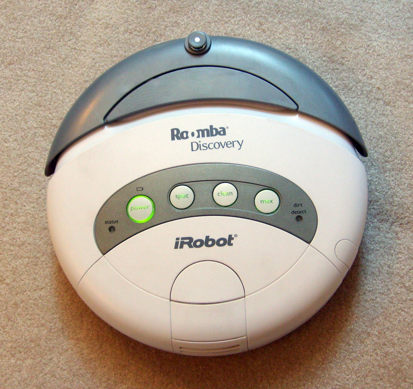 iRobot Roomba Discovery 2.1, sold in early 2007.